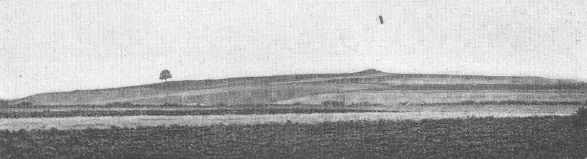 Picture of the mound after the excavation, view from river Unstrut